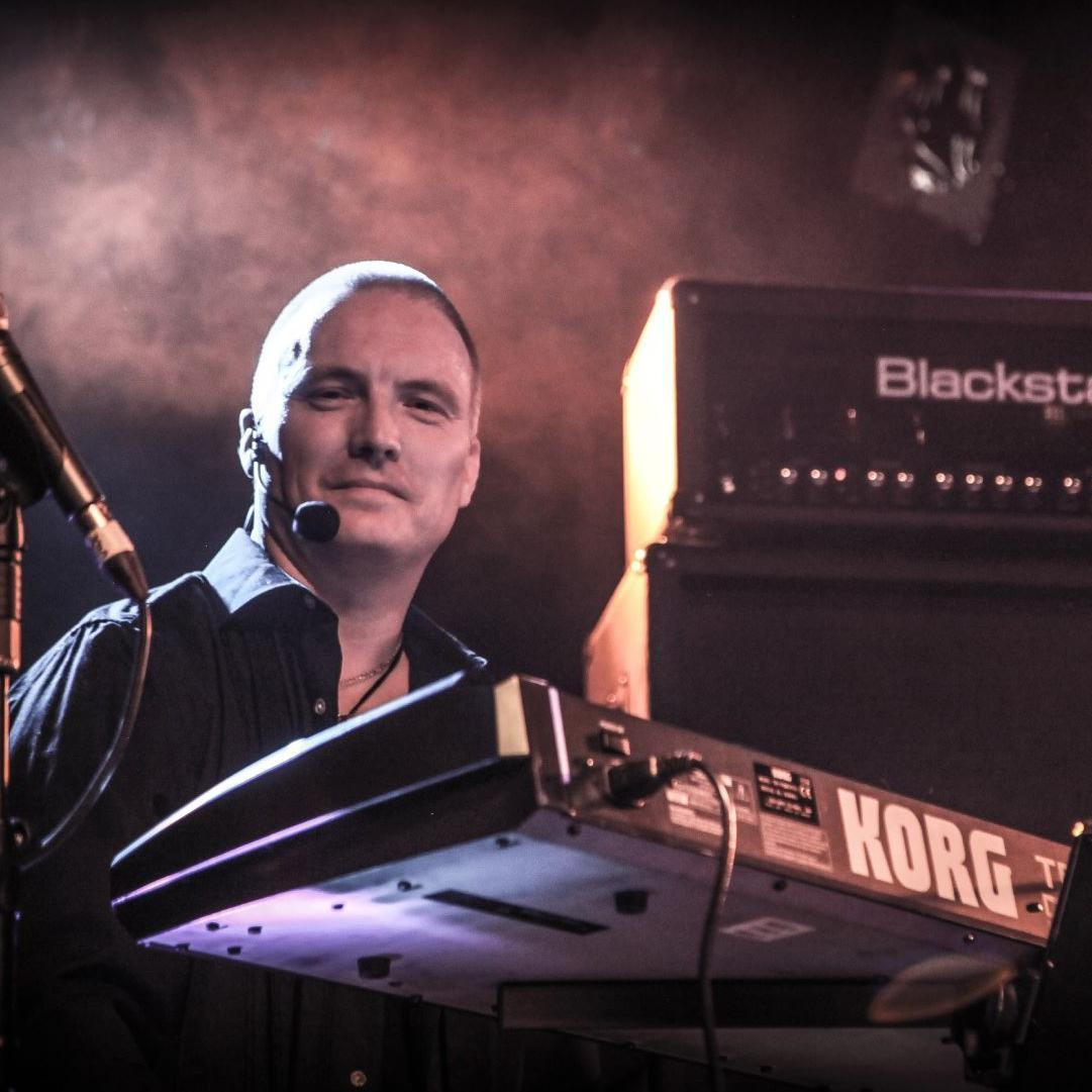 Darrel Treece-Birch circa 2012